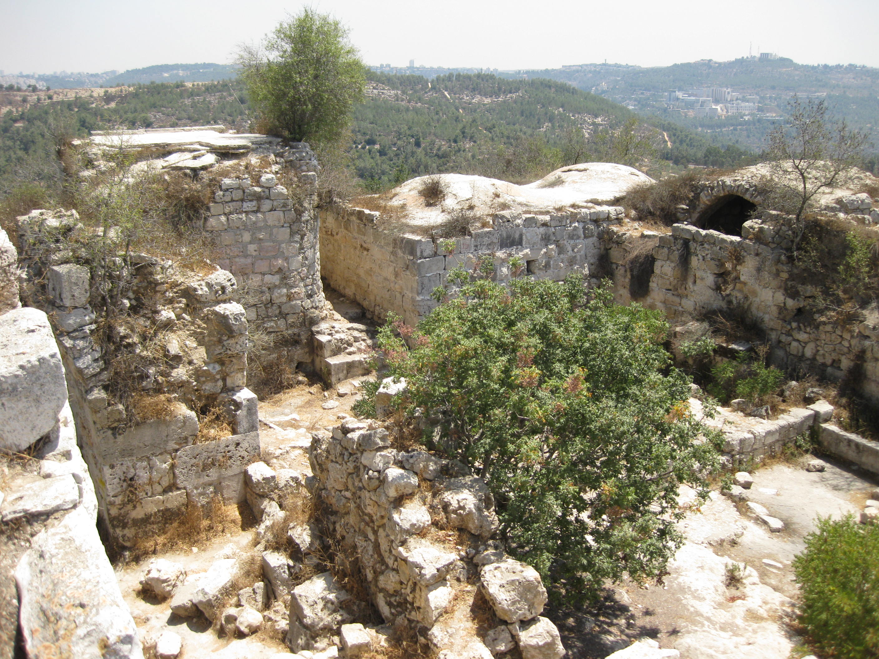 Belmont-Castle-Izrael